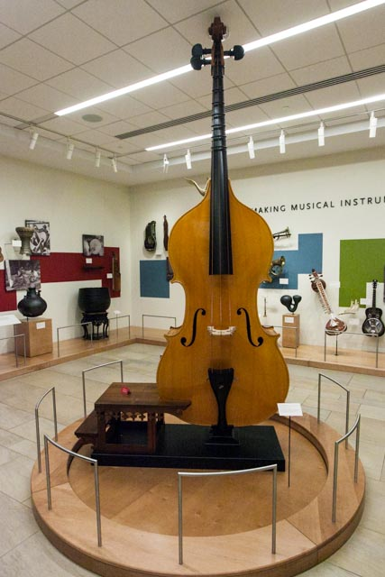 Octobass - MIM PHX We read about the Musical Instrument Museum (MIM) on Trip Advisor - it was the top rated attraction in Phoenix - and now we can see why! The museum is dedicated to musical instruments from around the world - the collection is fascinating, the exhibits are great and the hands-on displays were fun. We spent almost 5 hours here and still felt rushed - this place is definitely worth a detour. I know nothing about musical instruments so if you happen to know what a particular instrument is, please feel free to comment on it. I tried to include as many labels as possible. The museum is in Phoenix, AZ - we visited it in March 2014.